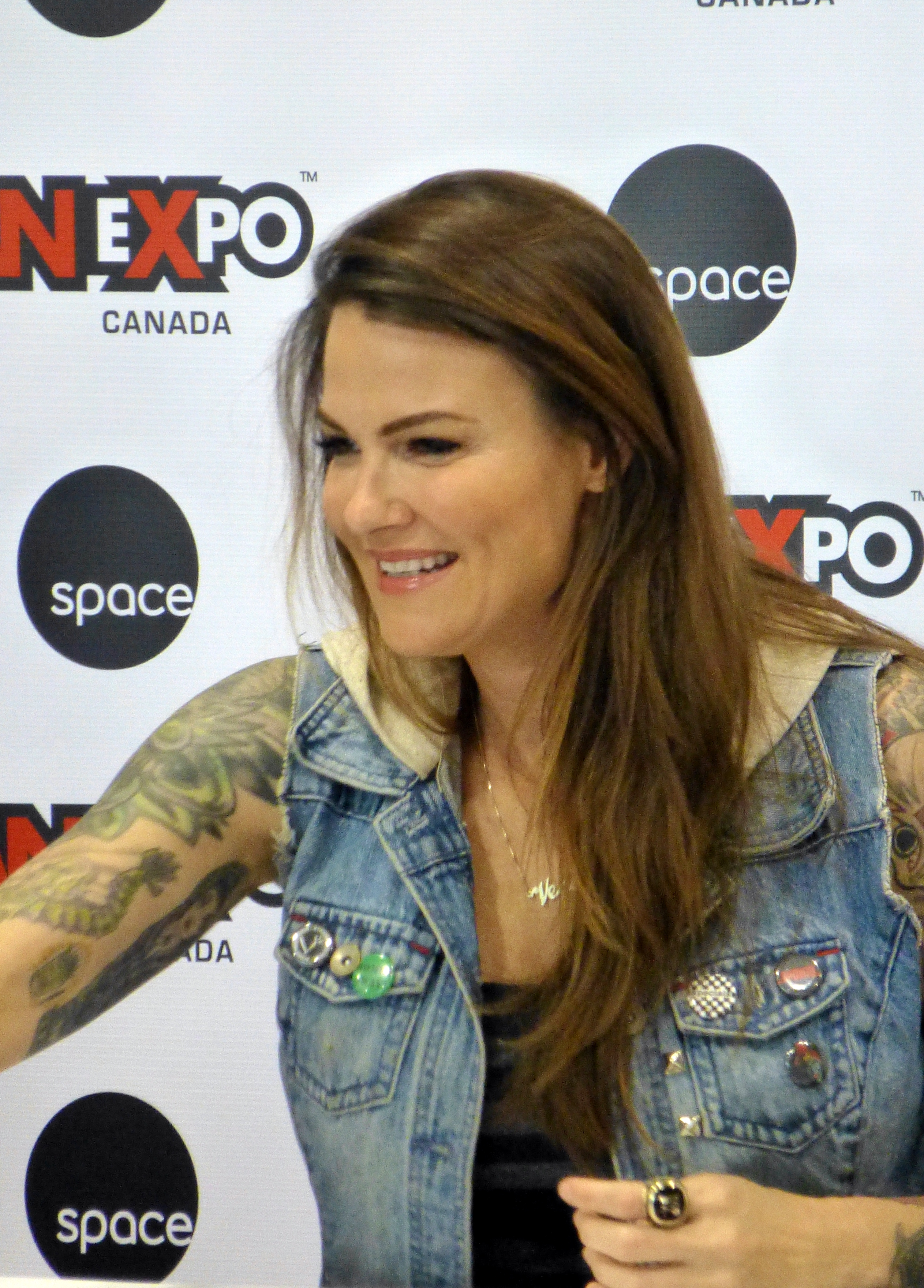 Also known as Lita in the WWE 2014 Fan Expo Canada